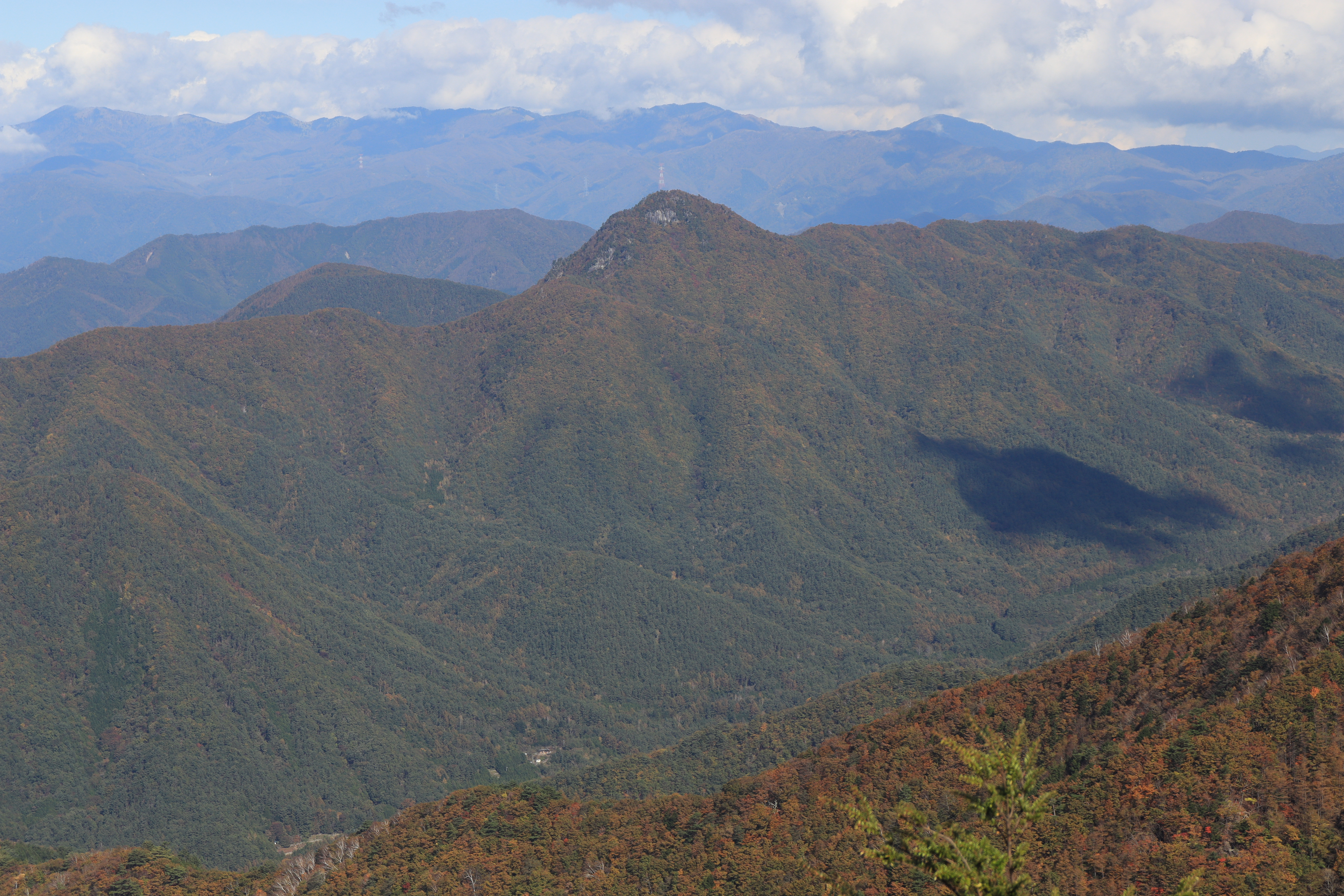 Mount Shaka seen from Mount Setto in Misaka Mountains, Fuefuki, Yamanashi Prefecture, Japan.